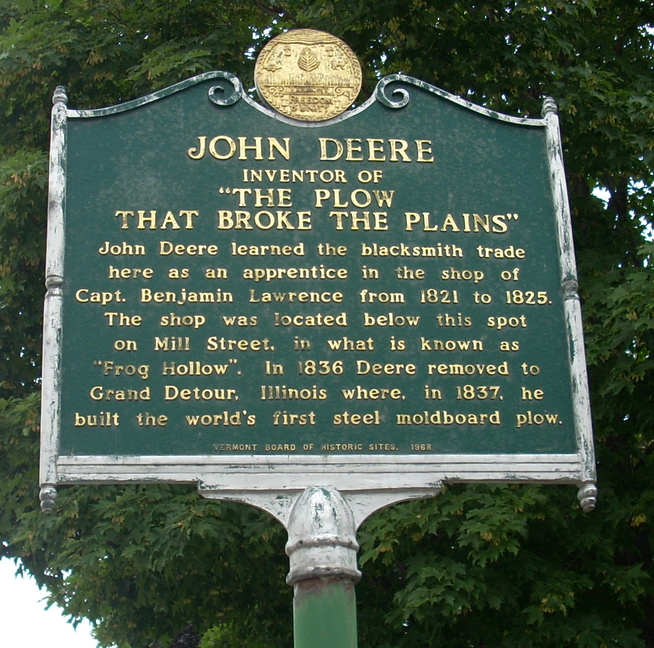 A historical marker marking the start of John Deere's career, located in Middlebury, Vermont, USA.